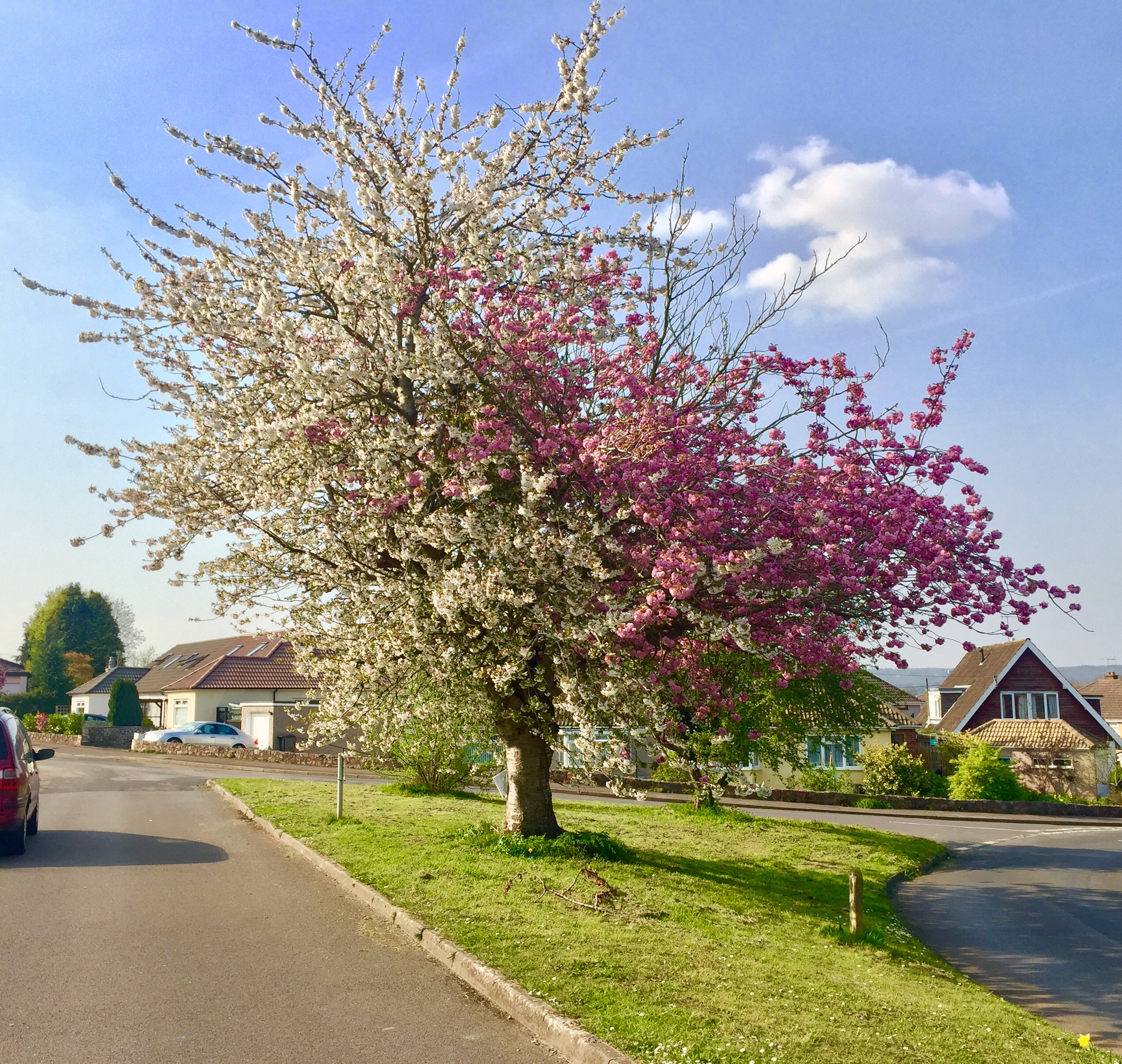 The Strawberries and Cream Tree is a rare graft hybrid tree in Backwell, North Somerset, England. It is a hybrid of a wild cherry and Japanese Kanzan tree, which produce two noticeably different blossoms at the same time- white and pink.